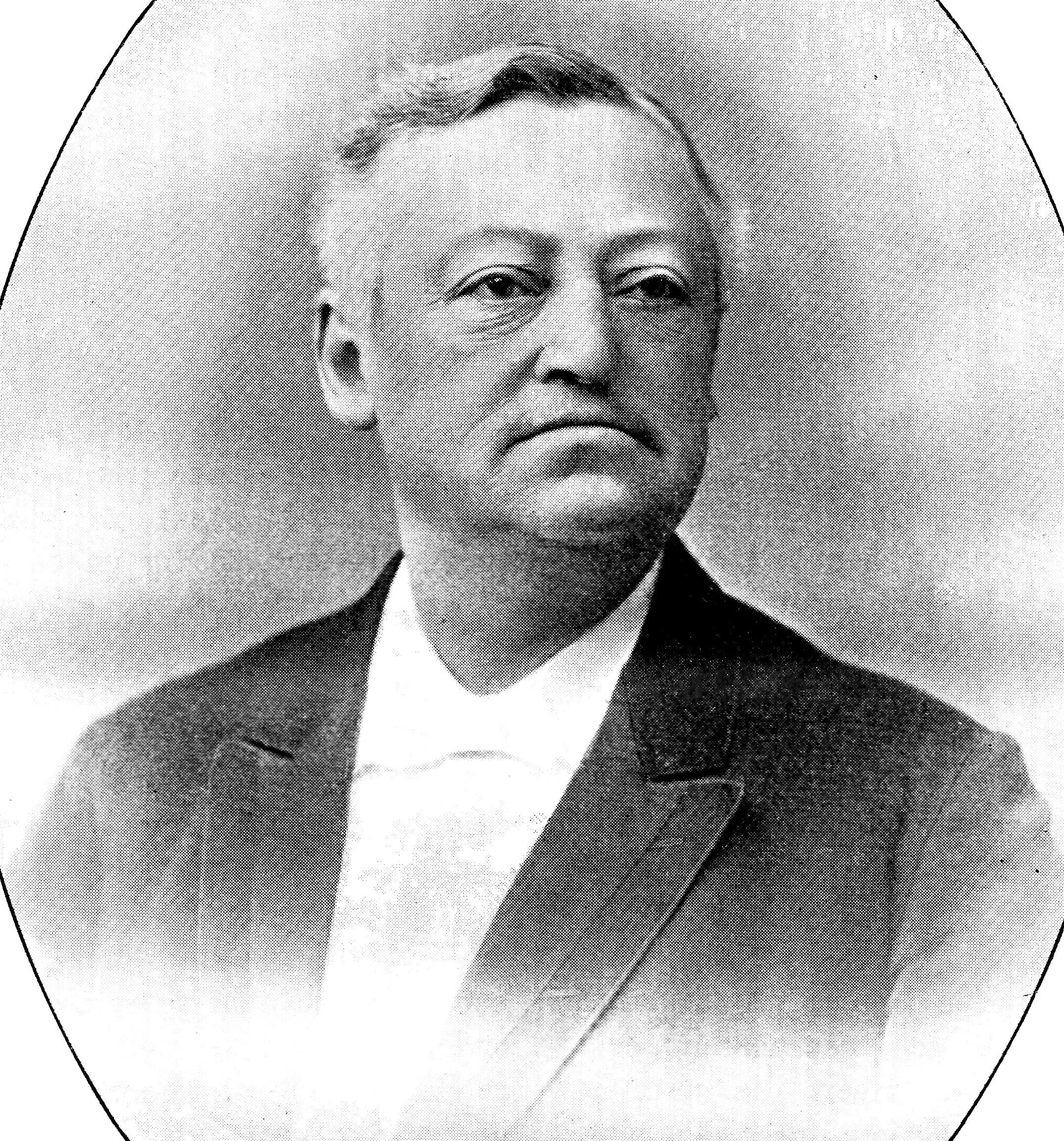 Joseph Cramer